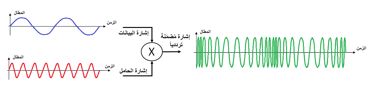 The modulation of an analog signal into an analog carrier using Frequency modulation (FM).